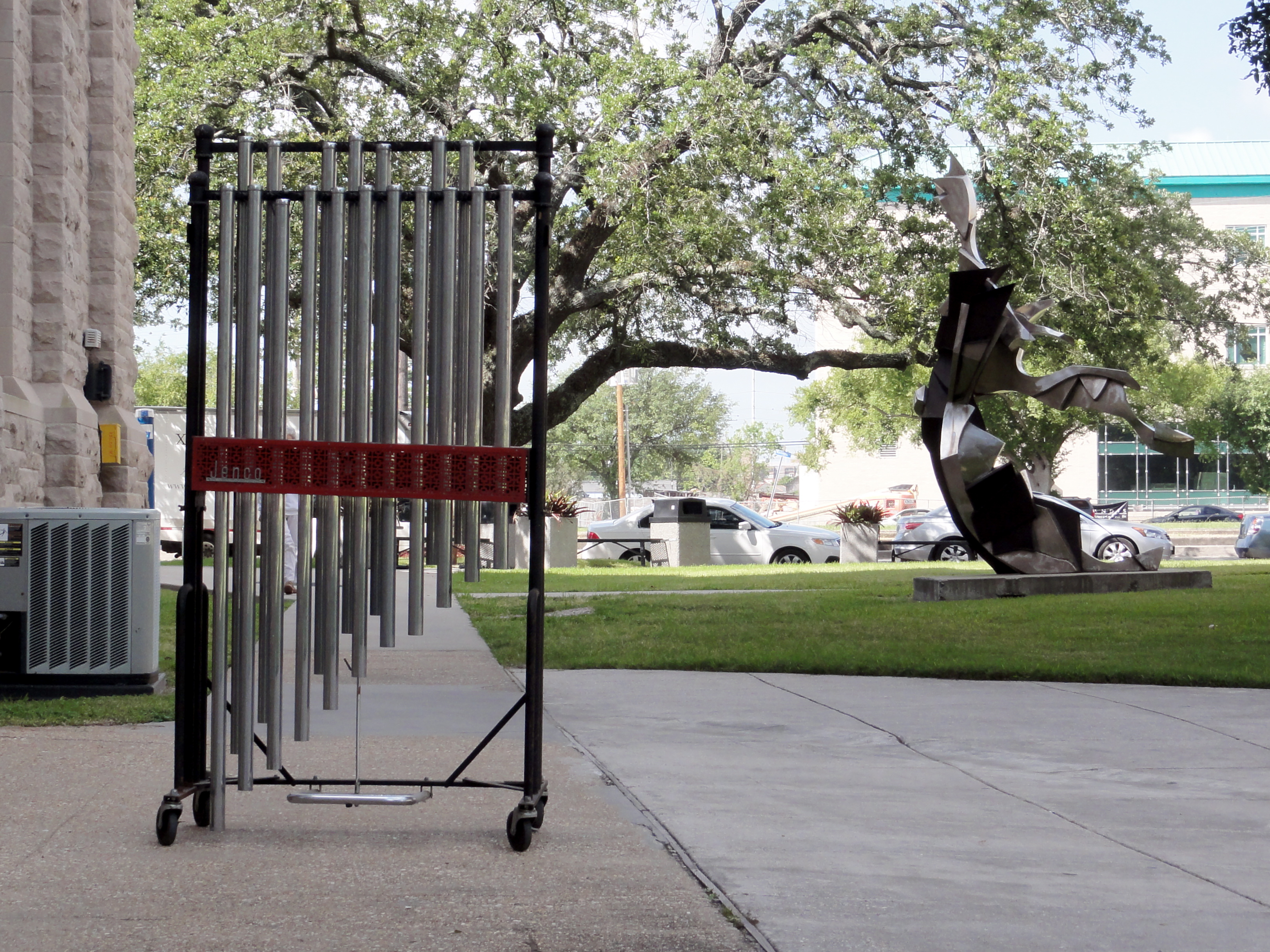 Xavier University, New Orleans. It's not every day you see a set of chimes sitting on the sidewalk. Just after I put my camera away, a nun came by and struck a few notes with a pencil.